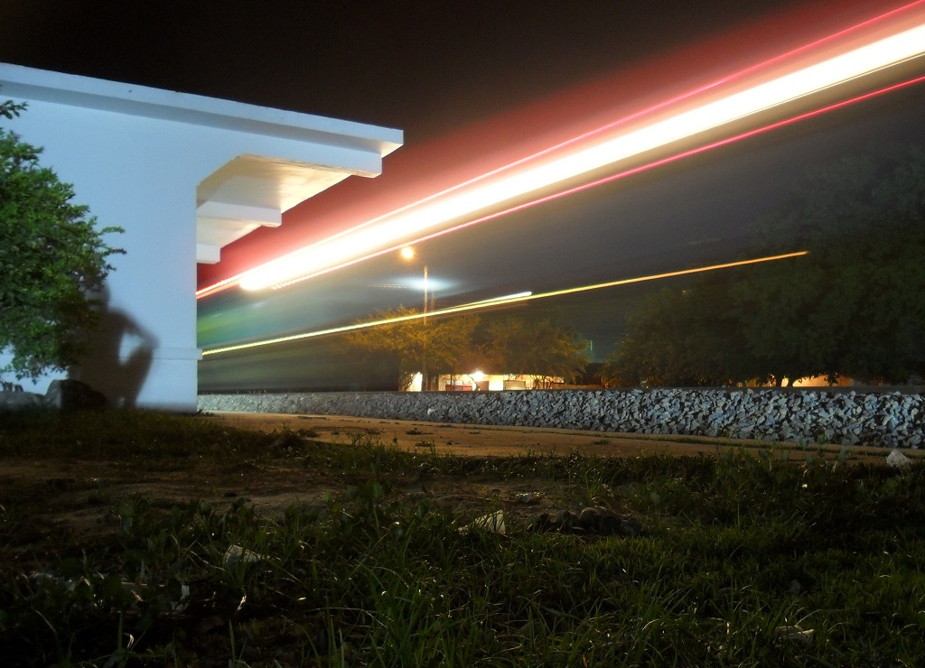 Train station of Aracataca by night